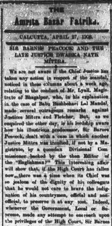 Rash Bihari Lal Mandal, the Zamindar of Murho Estate, Madhepura